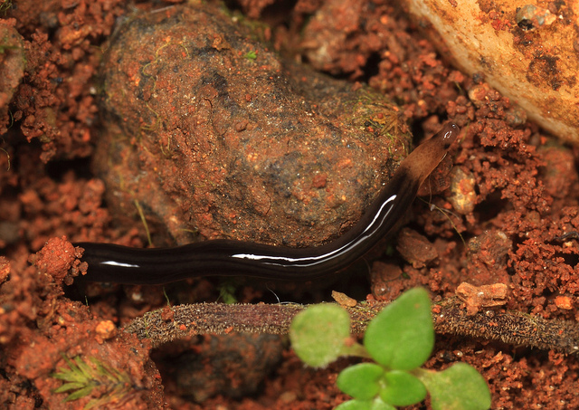 A terrestrial nemertean from West Java . The animal is 1.5 centimetres (0.59 in) long, of which the anterior 1 centimetre (0.39 in) is visible.